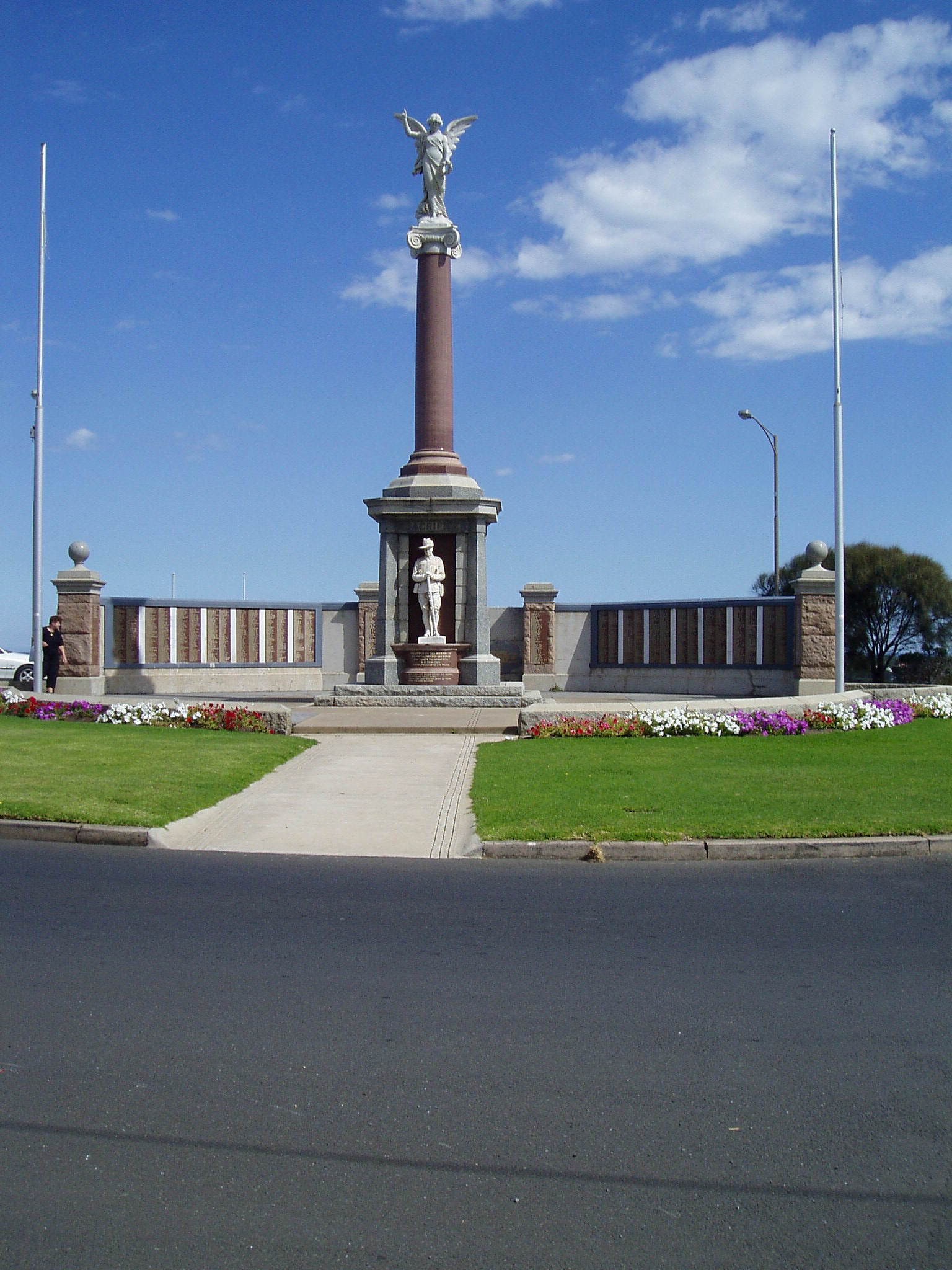 War memorial in Warrnambool, Australia.